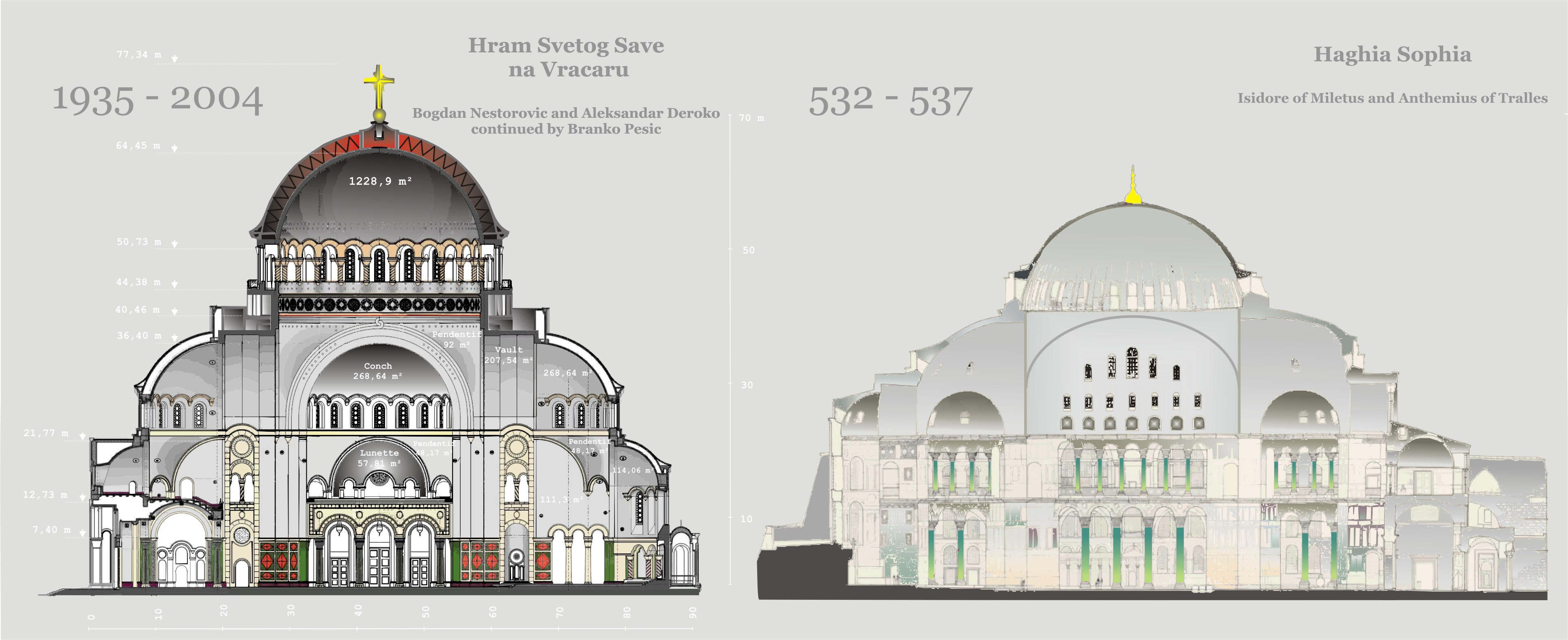 Size comparison church of st sava st sophie